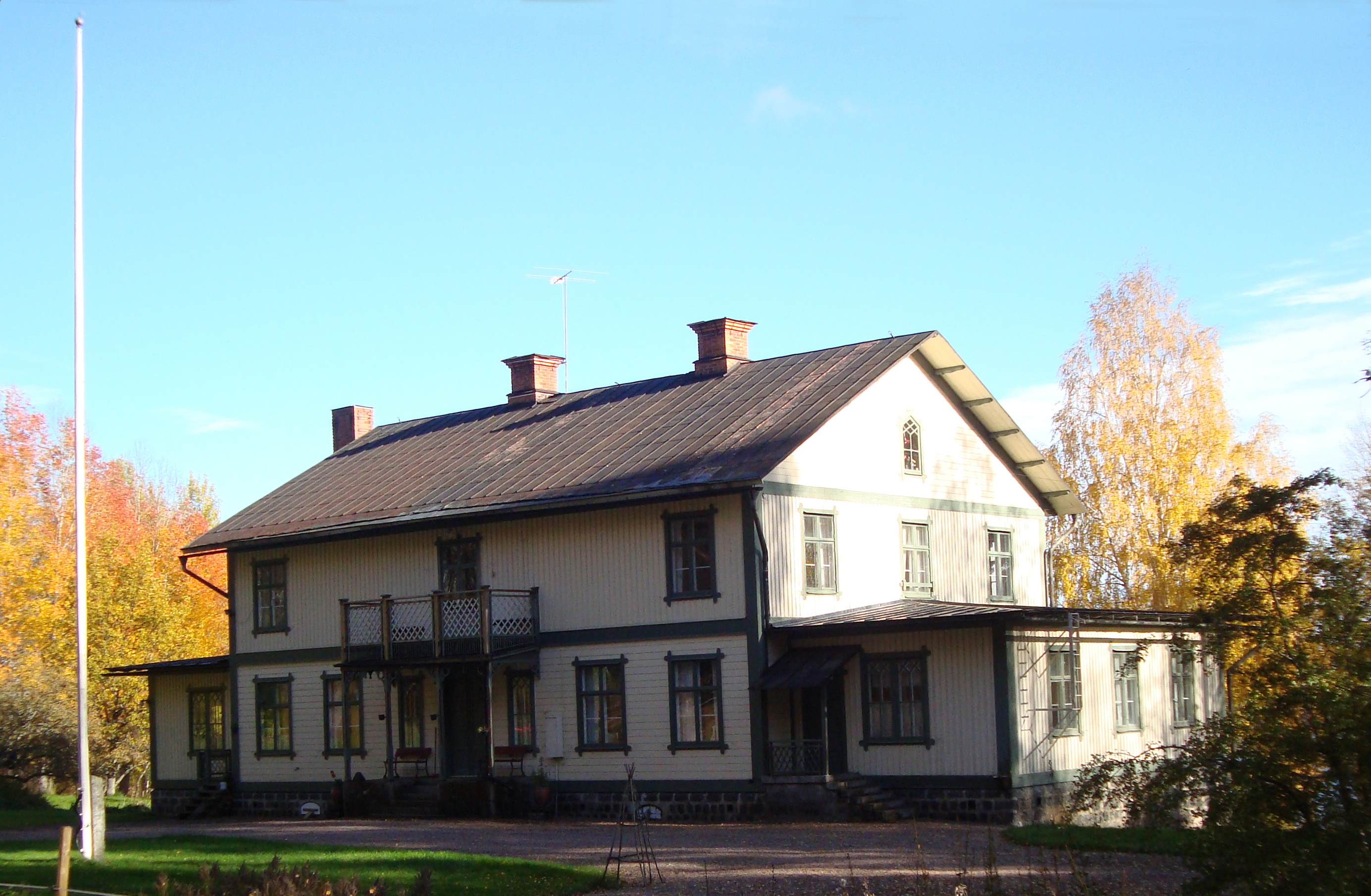 Mansion of Norn, Hedemora municipality, Sweden